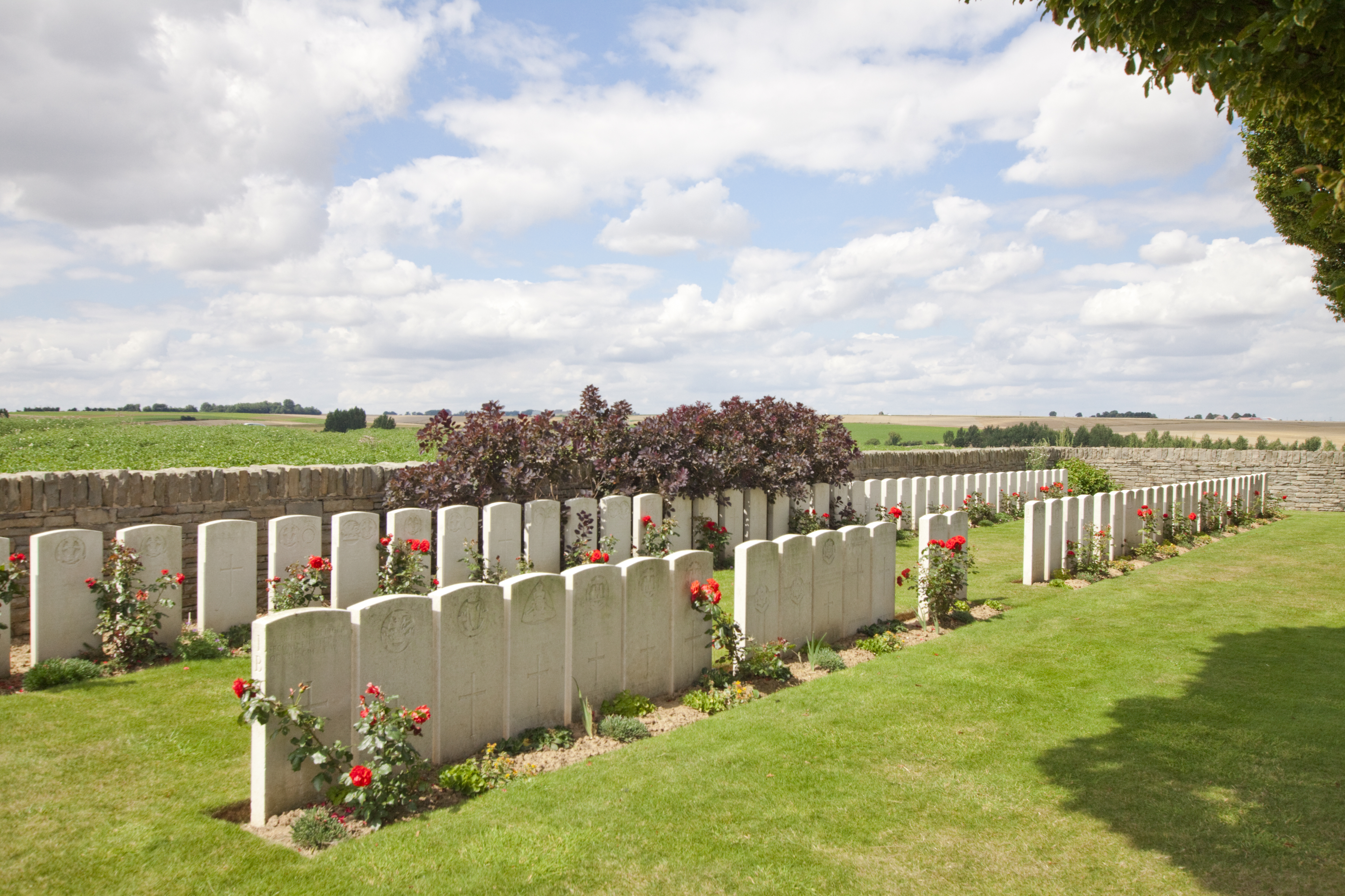 Hawthorn Ridge Cemetery No.1